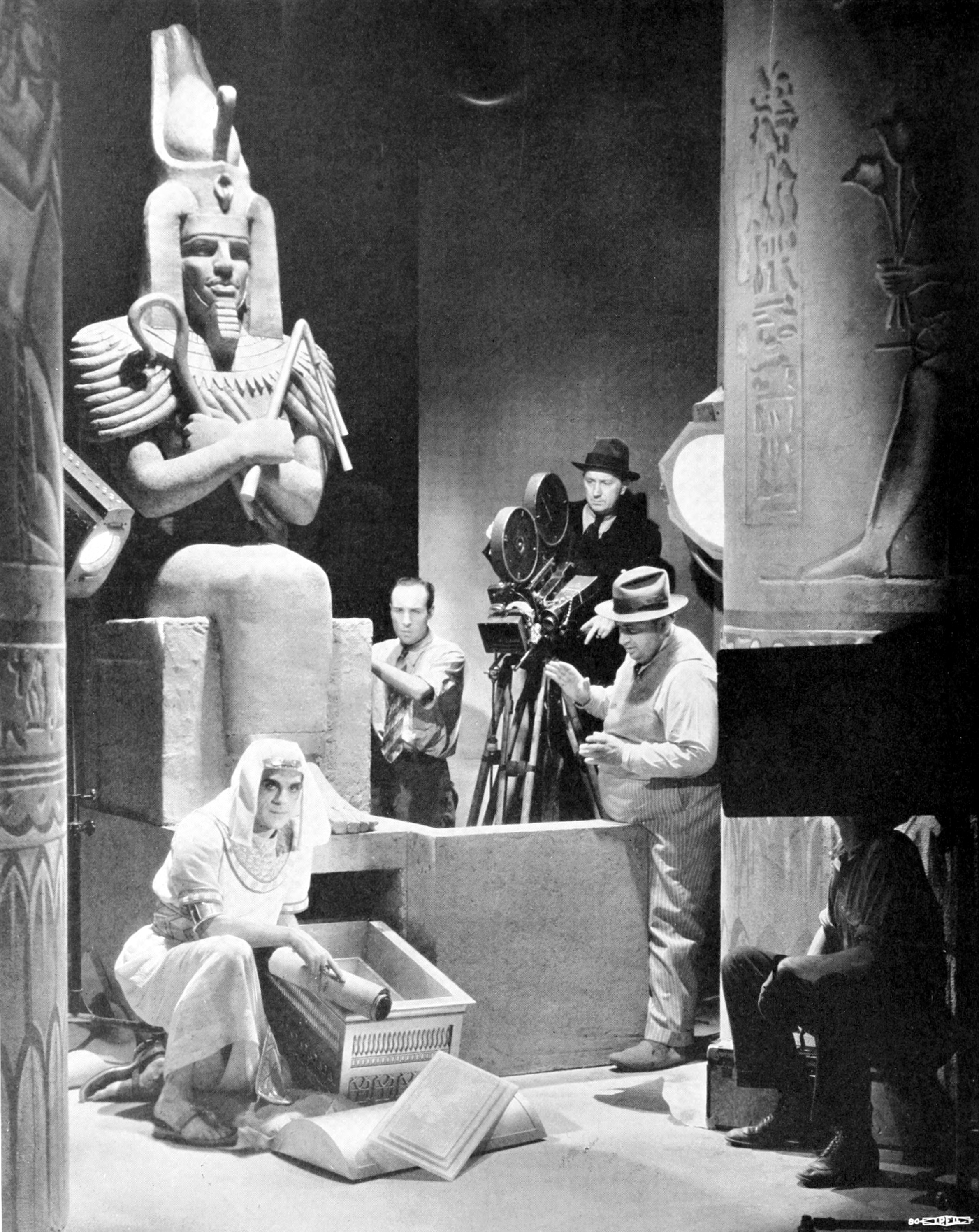 Photograph of Karl Freund directing Boris Karloff on the set of The Mummy (1932). Caption reads as follows:Here is Karl Freund, long time cameraman and now director, following Boris Karloff in his character in Universal's "Im-ho-tep," with Charles Stumar at the camera. Photographed by Fred R. Archer.